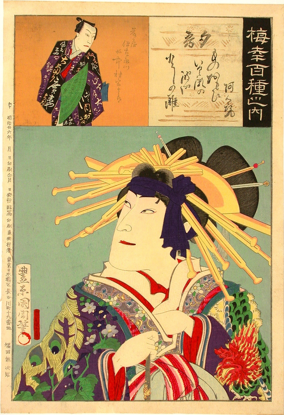 half-length actor portrait by Toyohara Kunichika, Onoe Baiko IV as the courtesan Yugiri, 1893